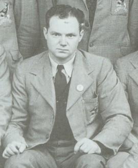 Photograph of Jack Galbally from 1933-1934